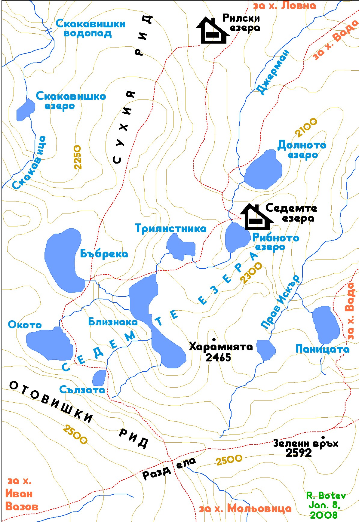 Map of the Seven Lakes, Rila, Bulgaria